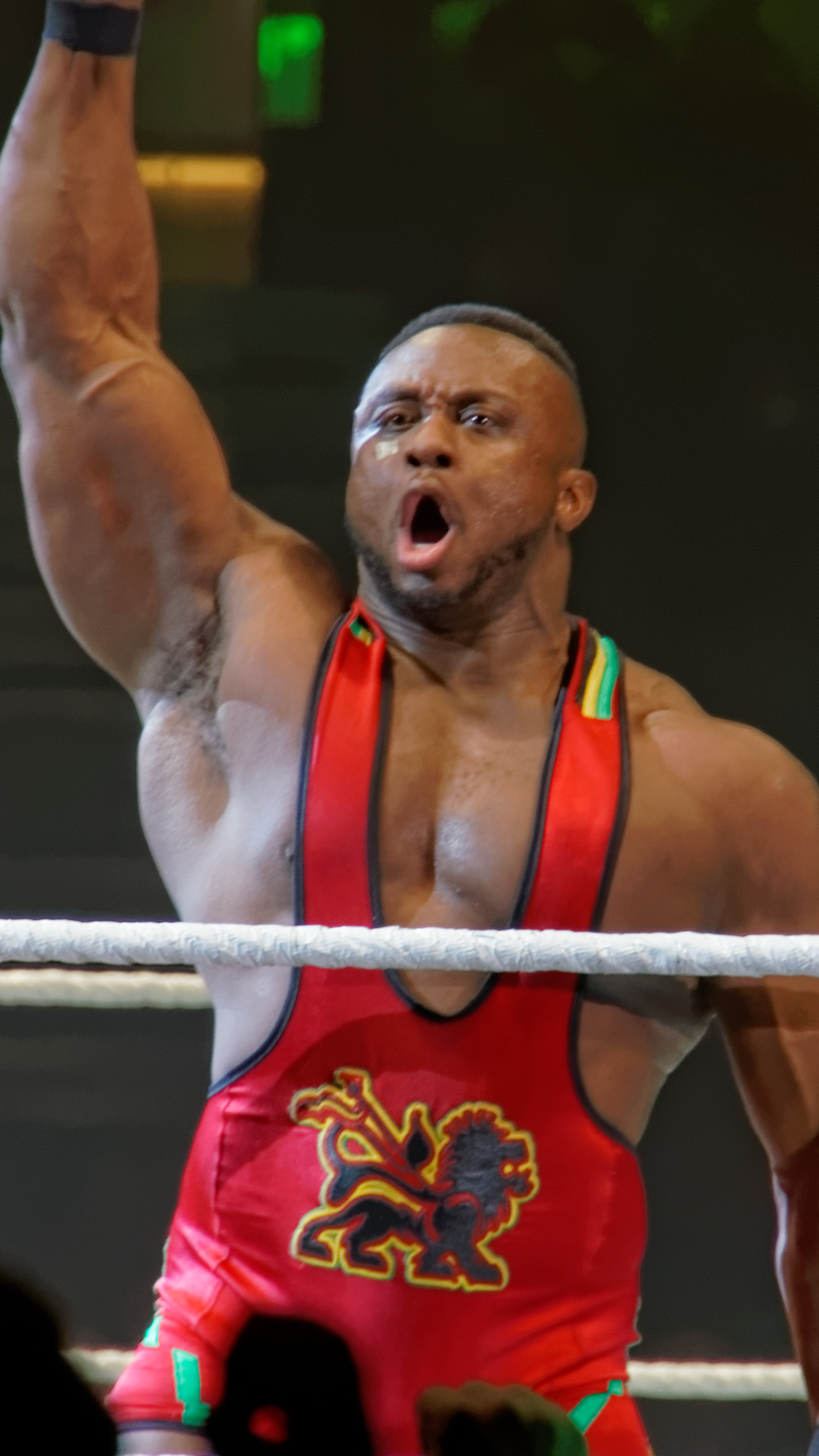 Professional wrestler Big E. Langston (aka Ettore Ewen) in November 2013.